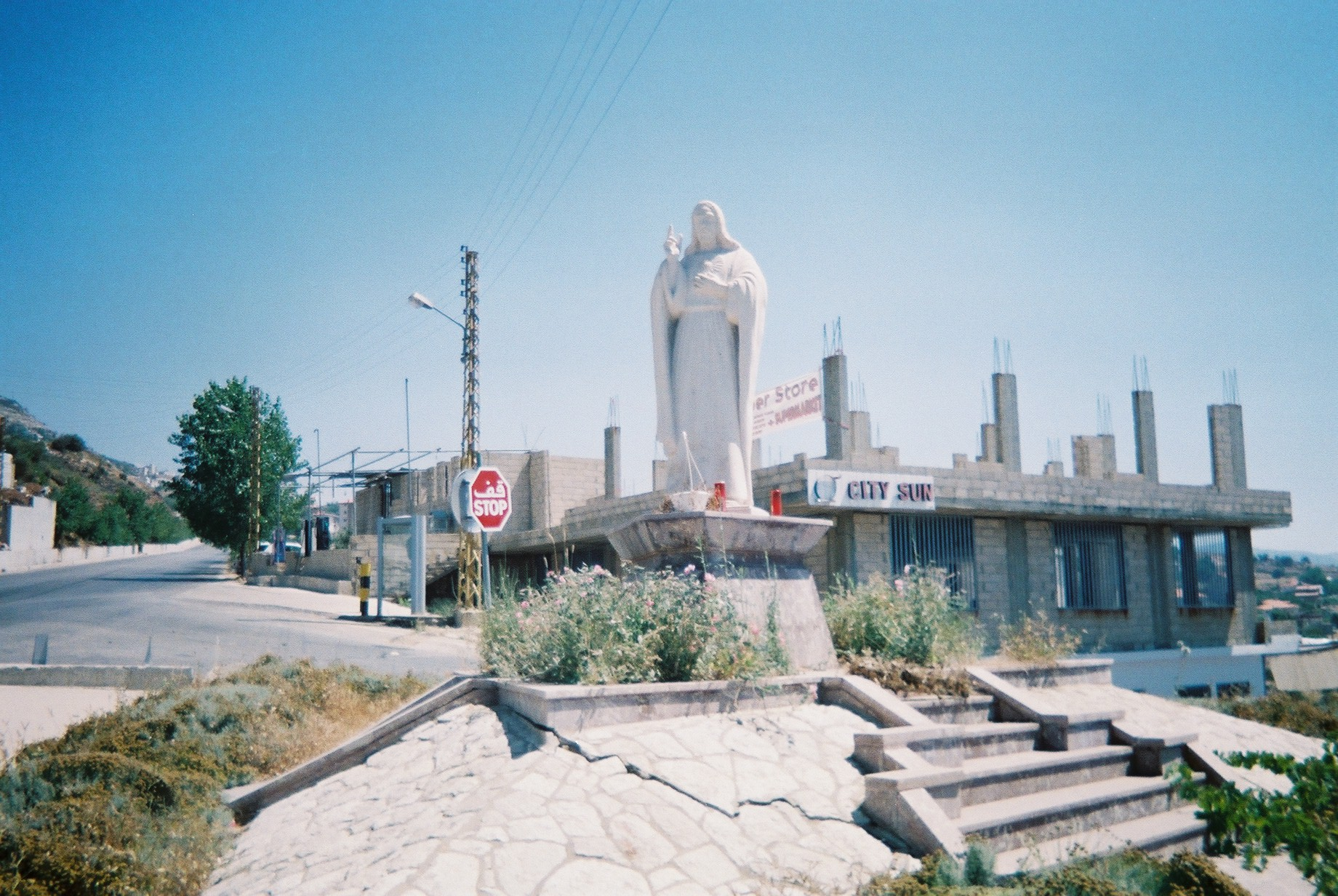 Outdoor statue of Jesus in Ehden, North Lebanon. Date: 08/2007 My own work.